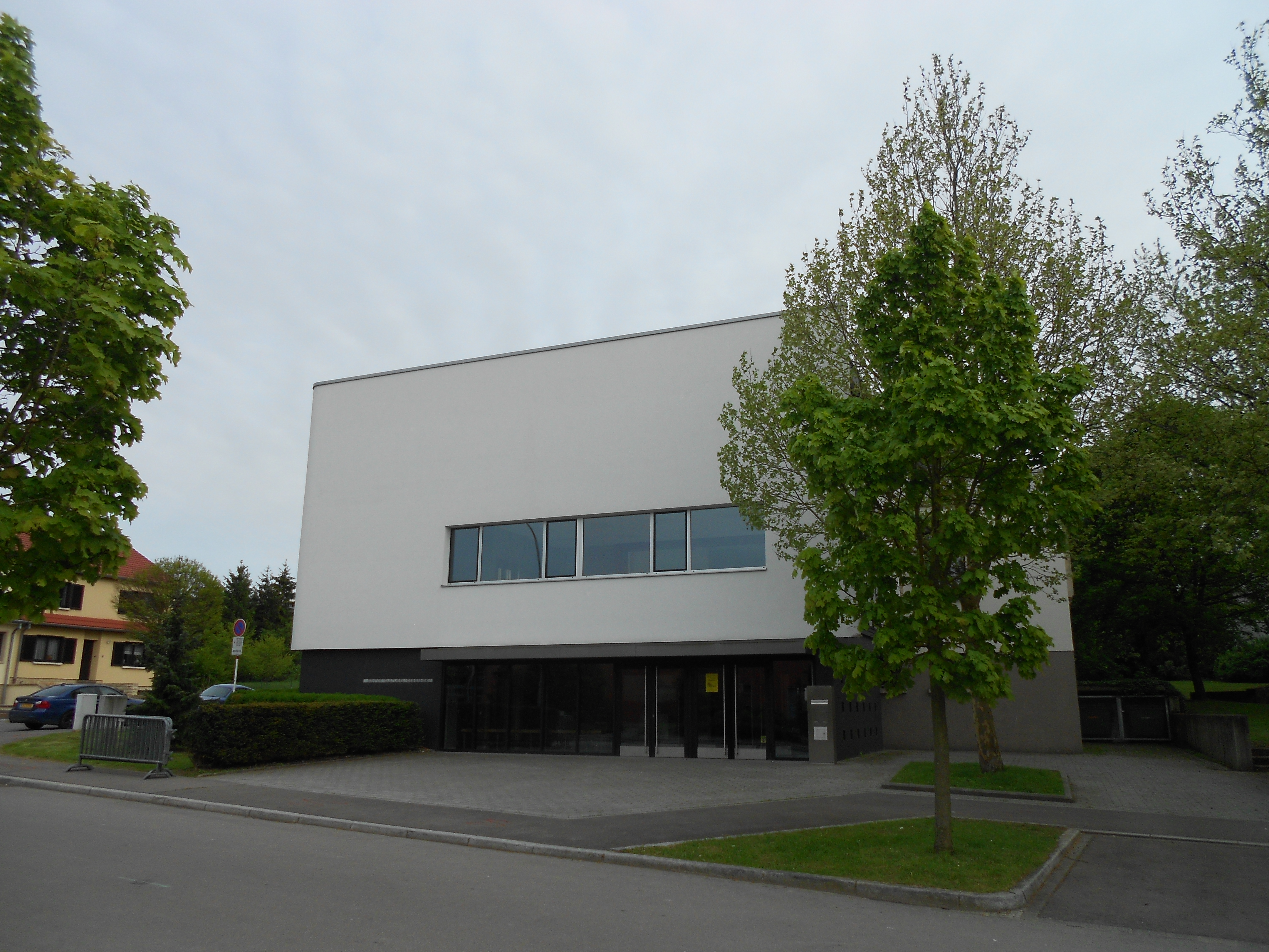 Front view of the main entrance of the Cultural Centre in Cessange, in the city of Luxembourg.